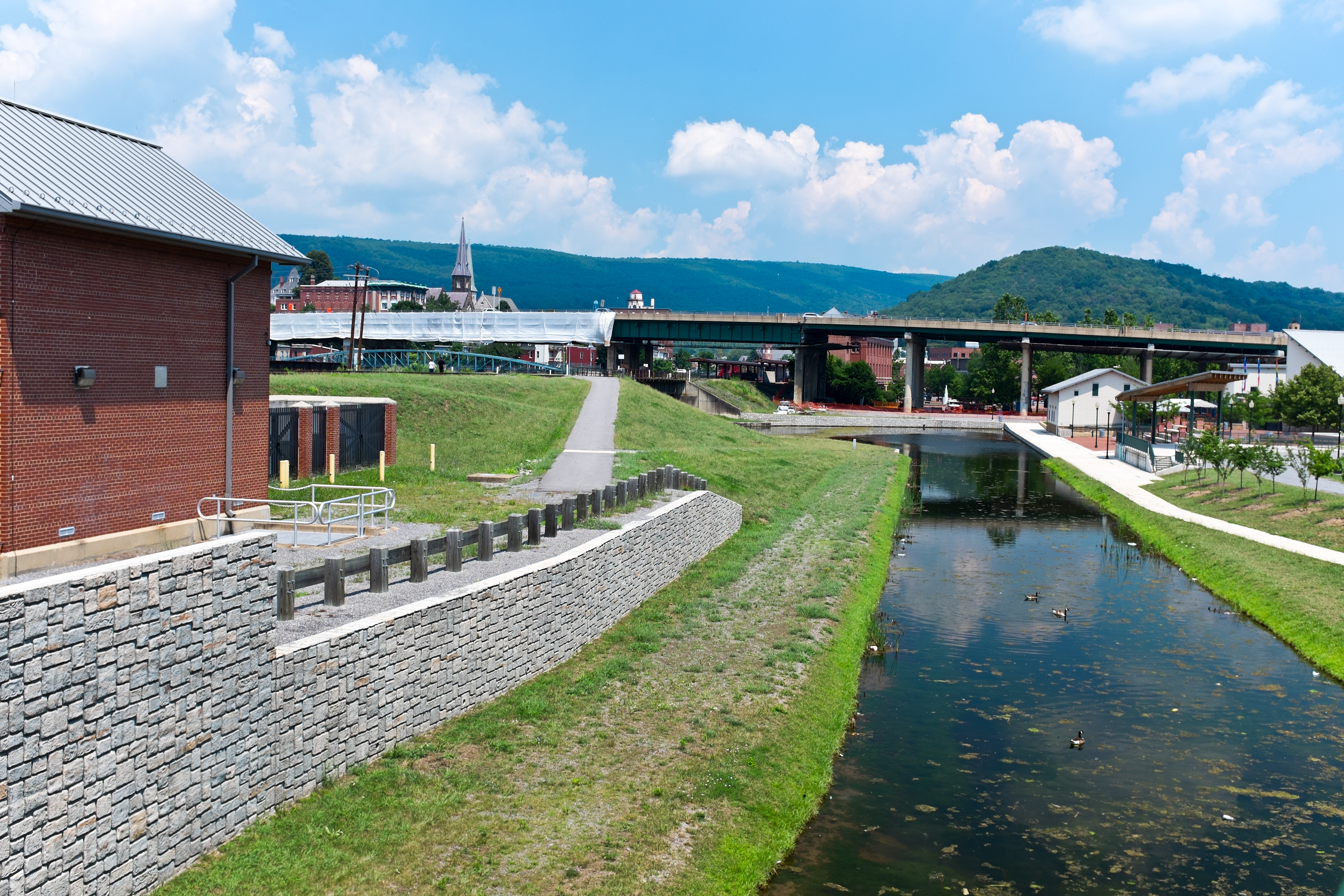 This is the basin at the end of the Chesapeake and Ohio Canal, looking north toward the end of the canal. Guard lock #8 is at the end of the channel on the left. Interstate Highway 68 / US 40 / US 220 runs on that bridge in the background. The Western Maryland Station is just visiable (brick building) beyond the highway bridge. Shops at Canal Place are to the right of the basin. Potomac River is to the left, just beyond the flood wall.